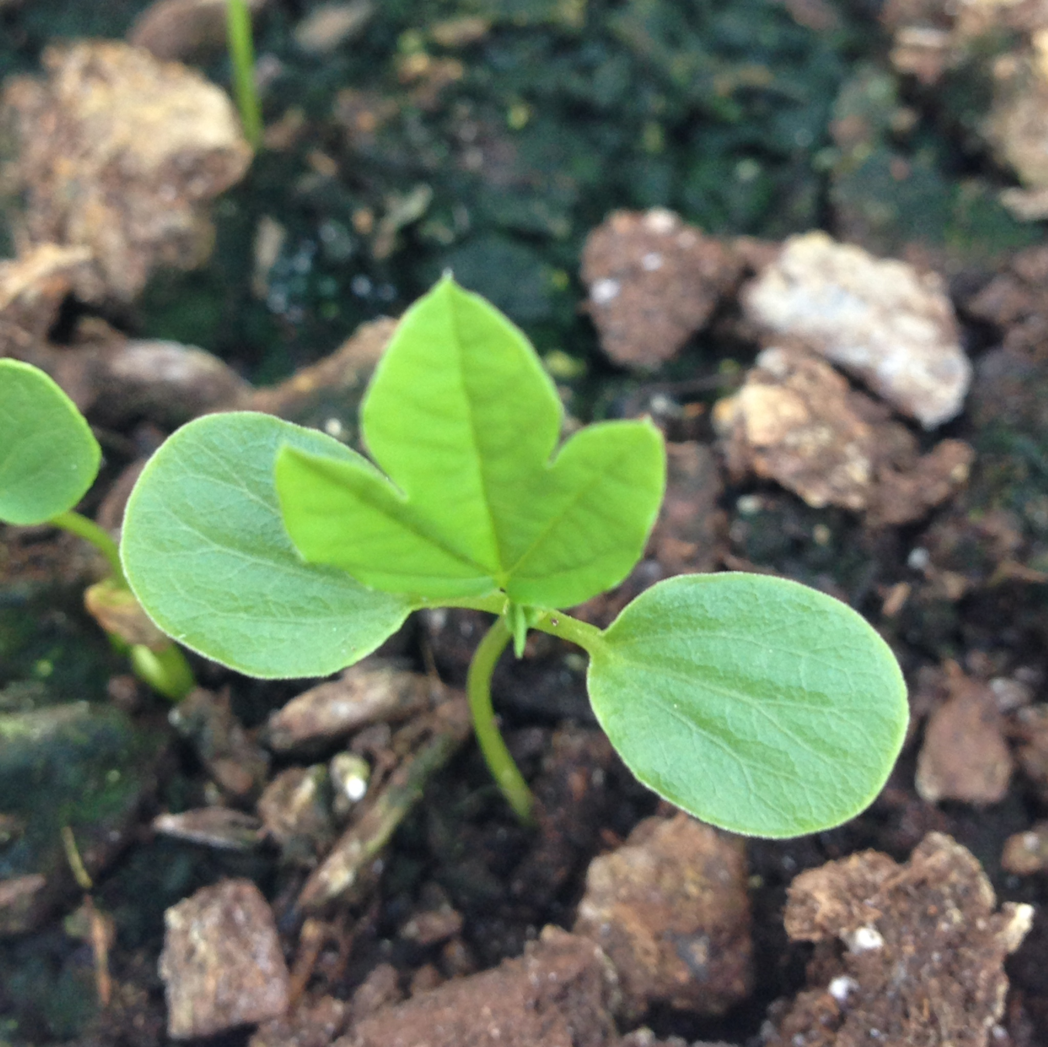 A Banana passionfruit seeding